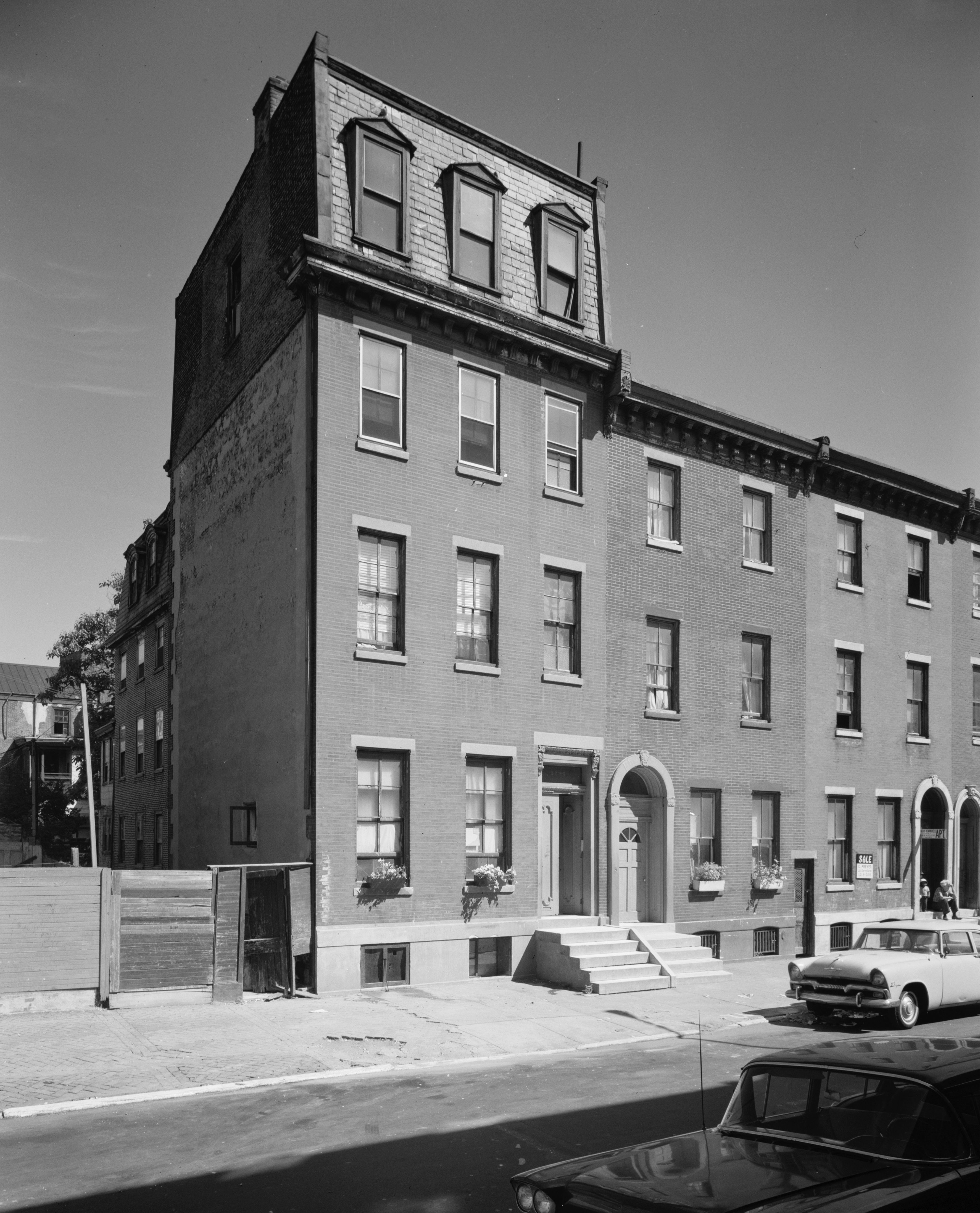 Thomas Eakins House, 1729 Mount Vernon Street, Philadelphia (Philadelphia County, Pennsylvania) (cropped)